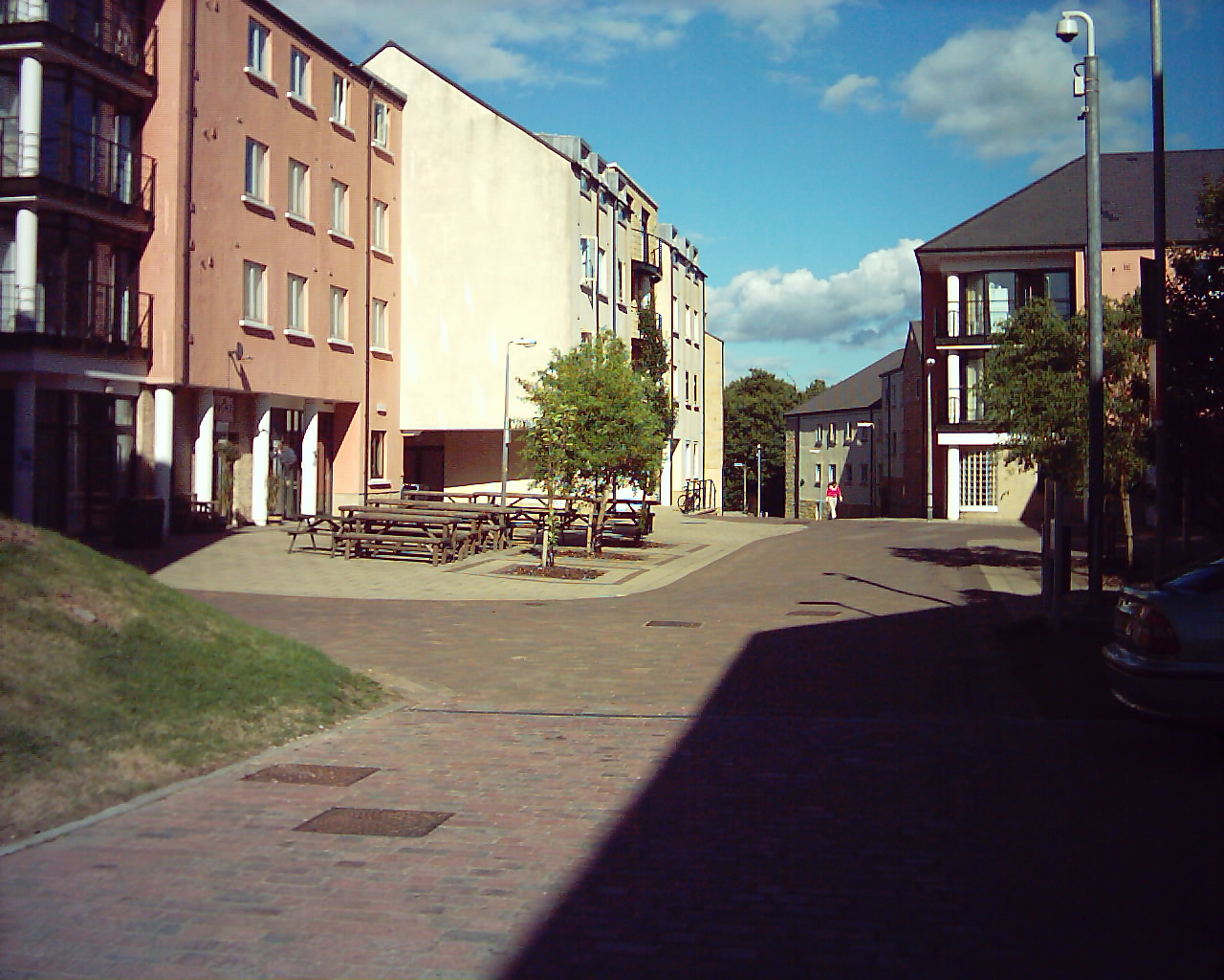 Graduate College, Lancaster Universitf. Taken by myself.